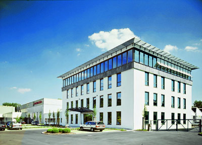 Pfisterer Standort in Winterbach